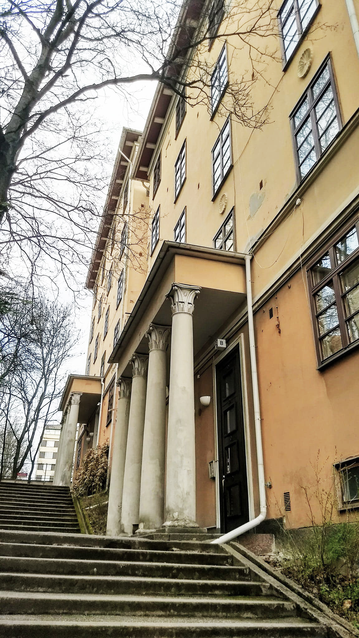 Atrium by architect Erik Bryggman in Turku